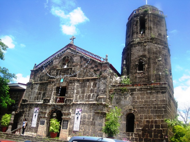 a Roman Catholic Church located in Baras, Rizal